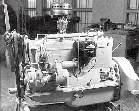 Sisu SA-5 engine made under licence of Hercules (original model name AMG).